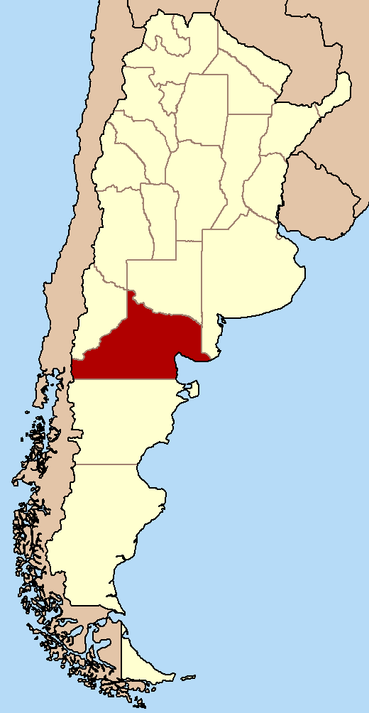 Provincia de Río Negro, Argentina. A map highlighting Río Negro, Argentina.